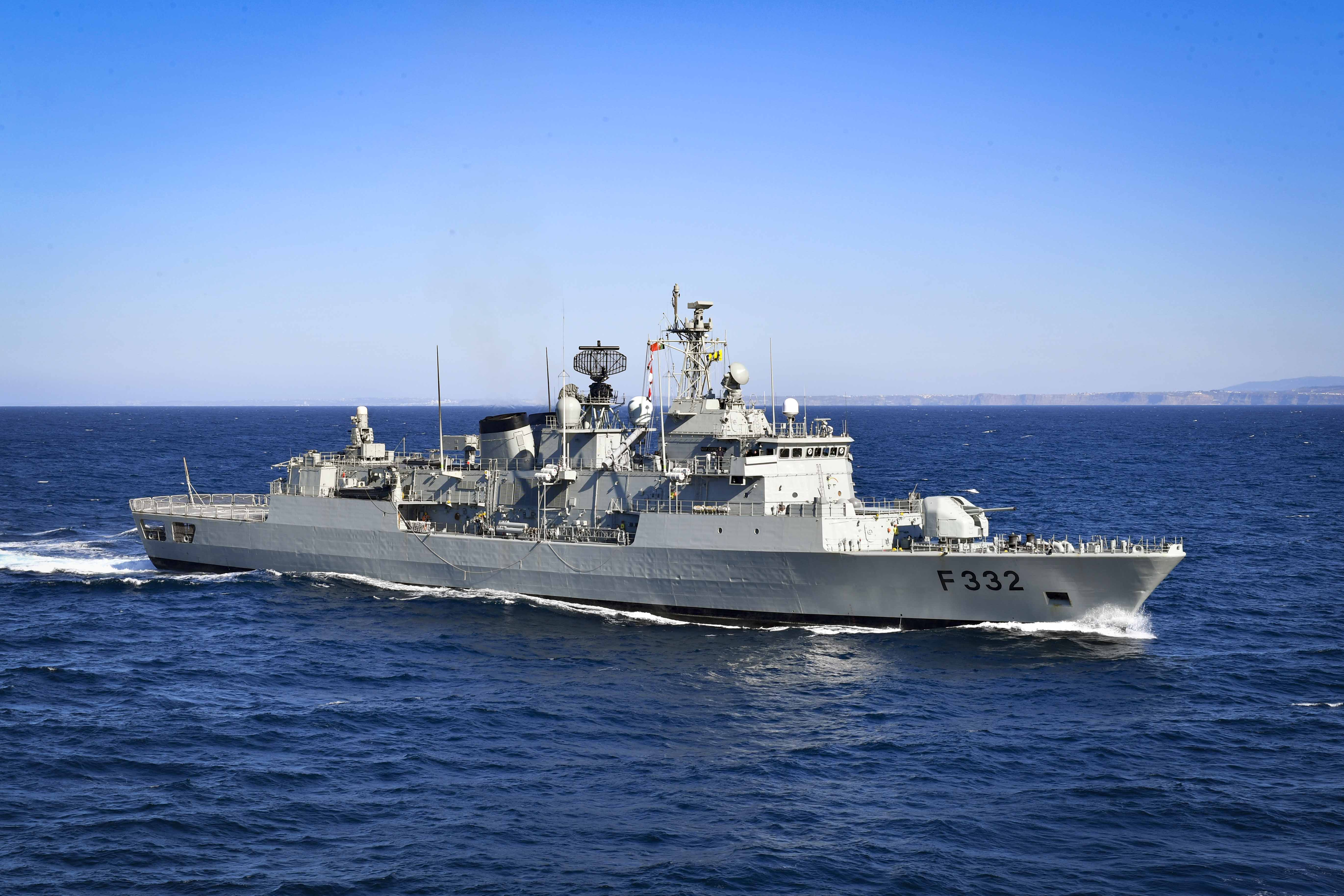 The Portuguese Navy Vasco da Gama-class frigate NRP Corte Real (F332) sails alongside the U.S. Navy Arleigh Burke-class guided-missile destroyer USS Oscar Austin (DDG-79), not visible, during a bilateral training in the Atlantic Ocean on 6 November 2017.